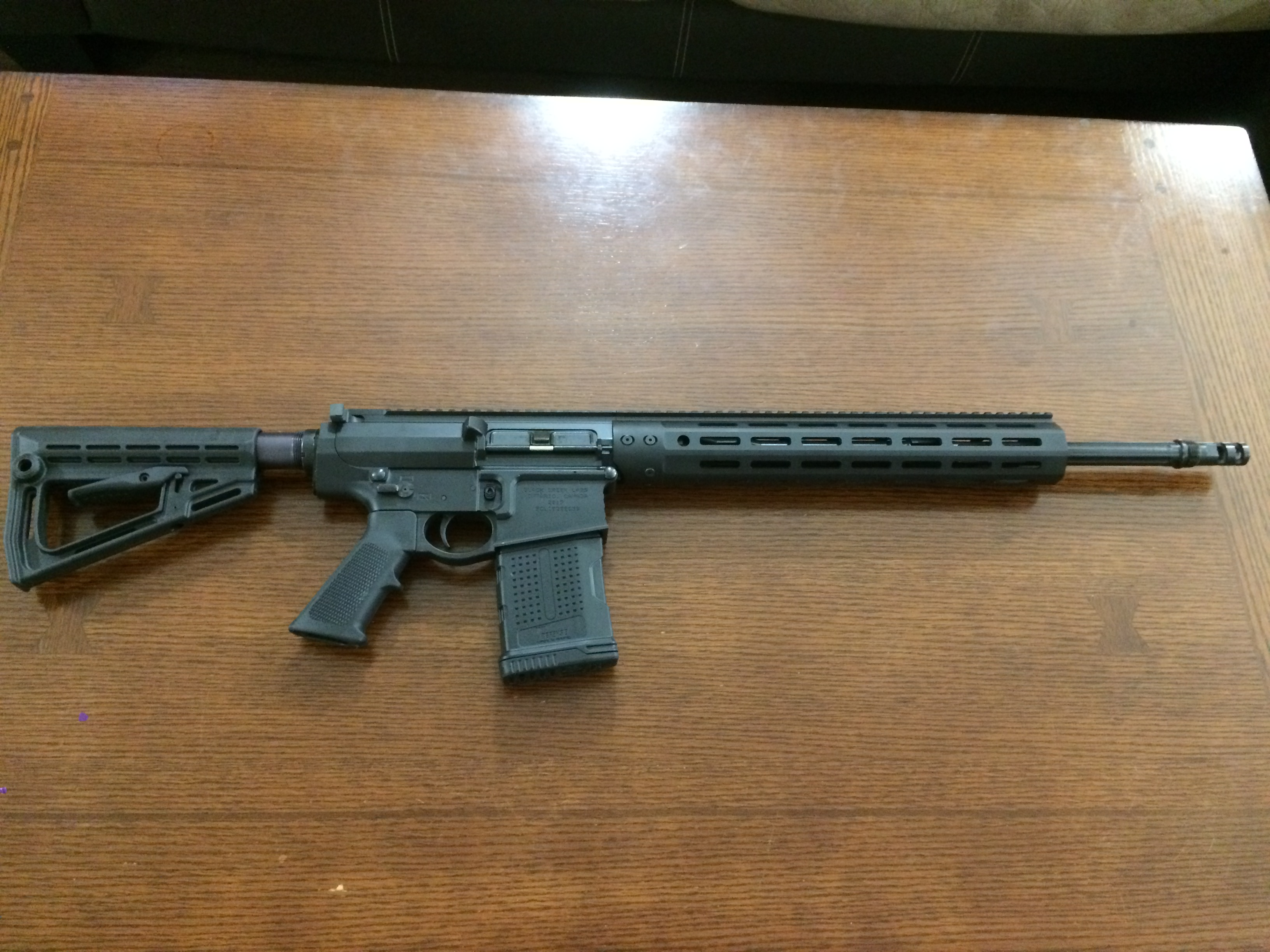 BCL 102 Gen 1